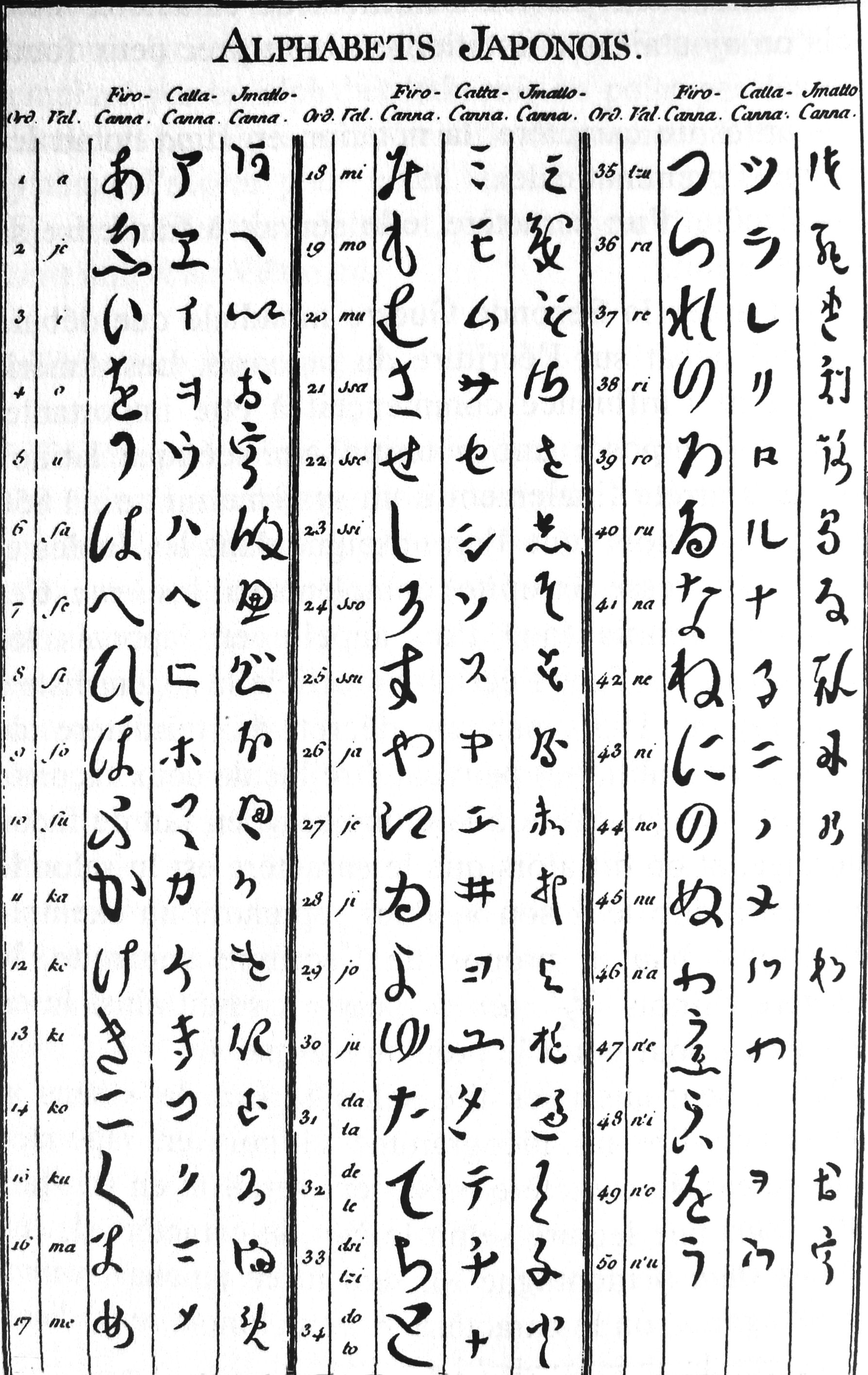 Japanese "alphabets" in Diderot Encyclopedia (18th century) -- actually syllabaries